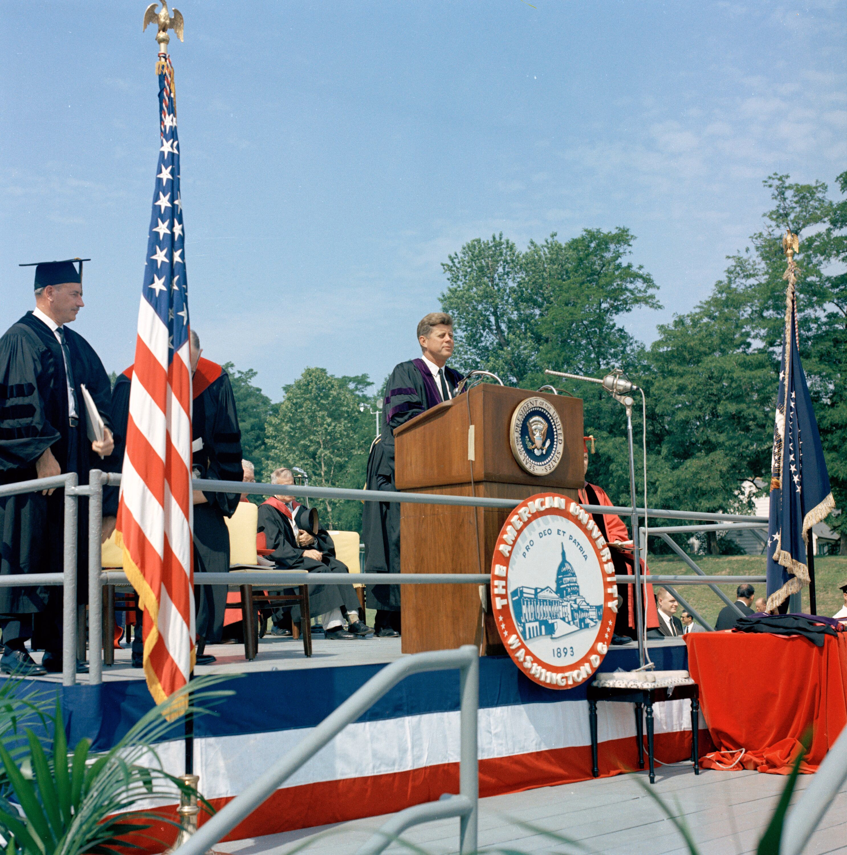 Commencement Address at American University. Washington, D. C., American University, John M. Reeves Athletic Field. Photograph by Cecil Stoughton, White House, in the John F. Kennedy Presidential Library and Museum, Boston.